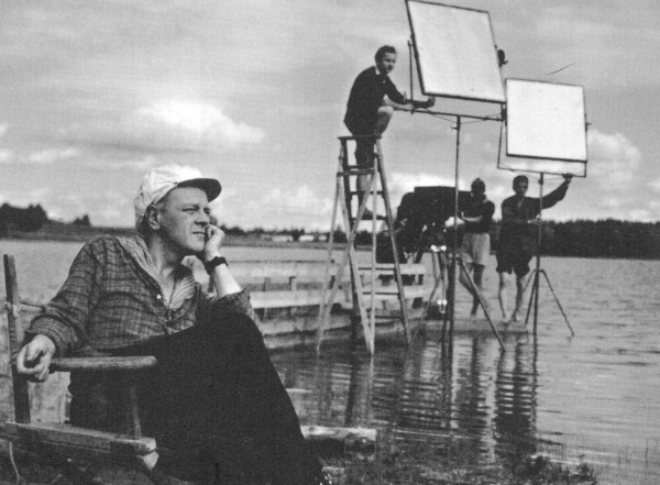 Director Valentin Vaala shooting the film Ihmiset suviyössä in Hauho. Behind the camera Eino Heino, Erkki Imberg and Erkki Stillman.